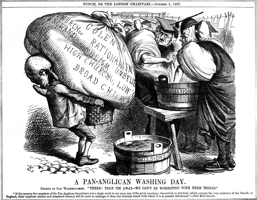 A Punch (magazine) cartoon on the subject of the 1867 Lambeth Conference